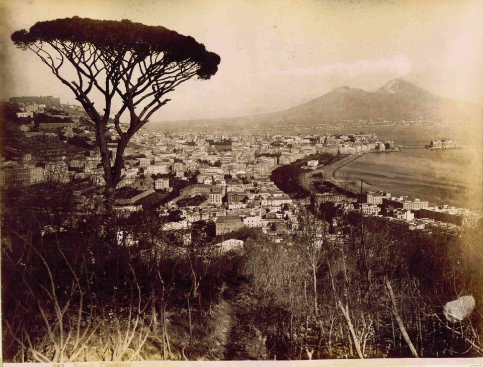 Giorgio Sommer (1834-1914), "Naples - View". Catalogue # 1167.